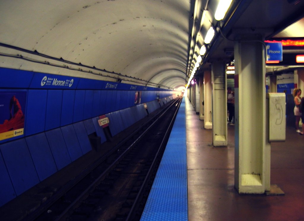 Monroe Station on the CTA Red Line.